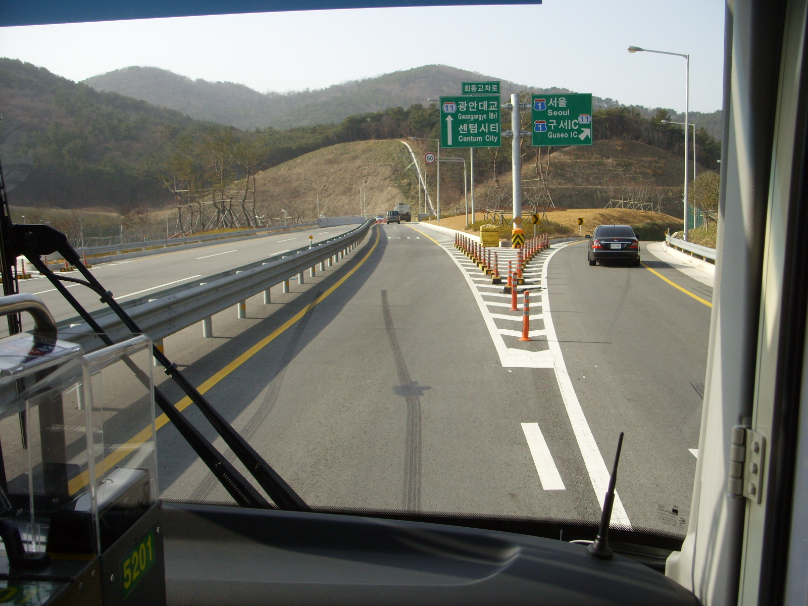 Hoedong JC in Beonyeong-no Road, Busan, South Korea.